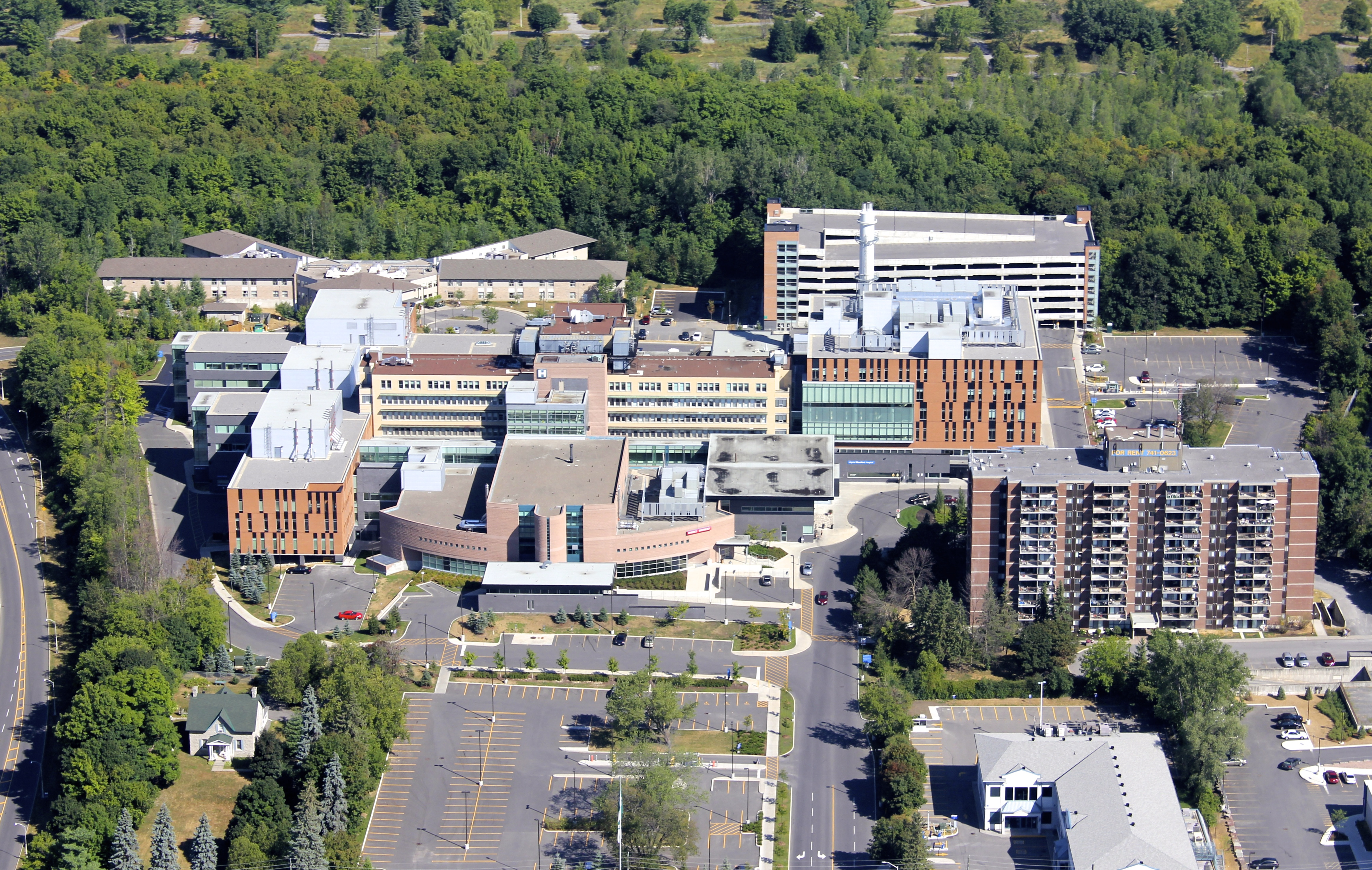 Aerial view of Montfort Hospital in 2012.